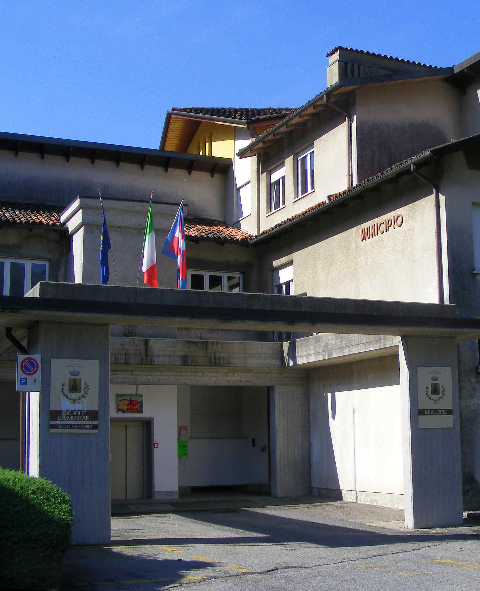 Sagliano Micca (BI, Italy): town hall